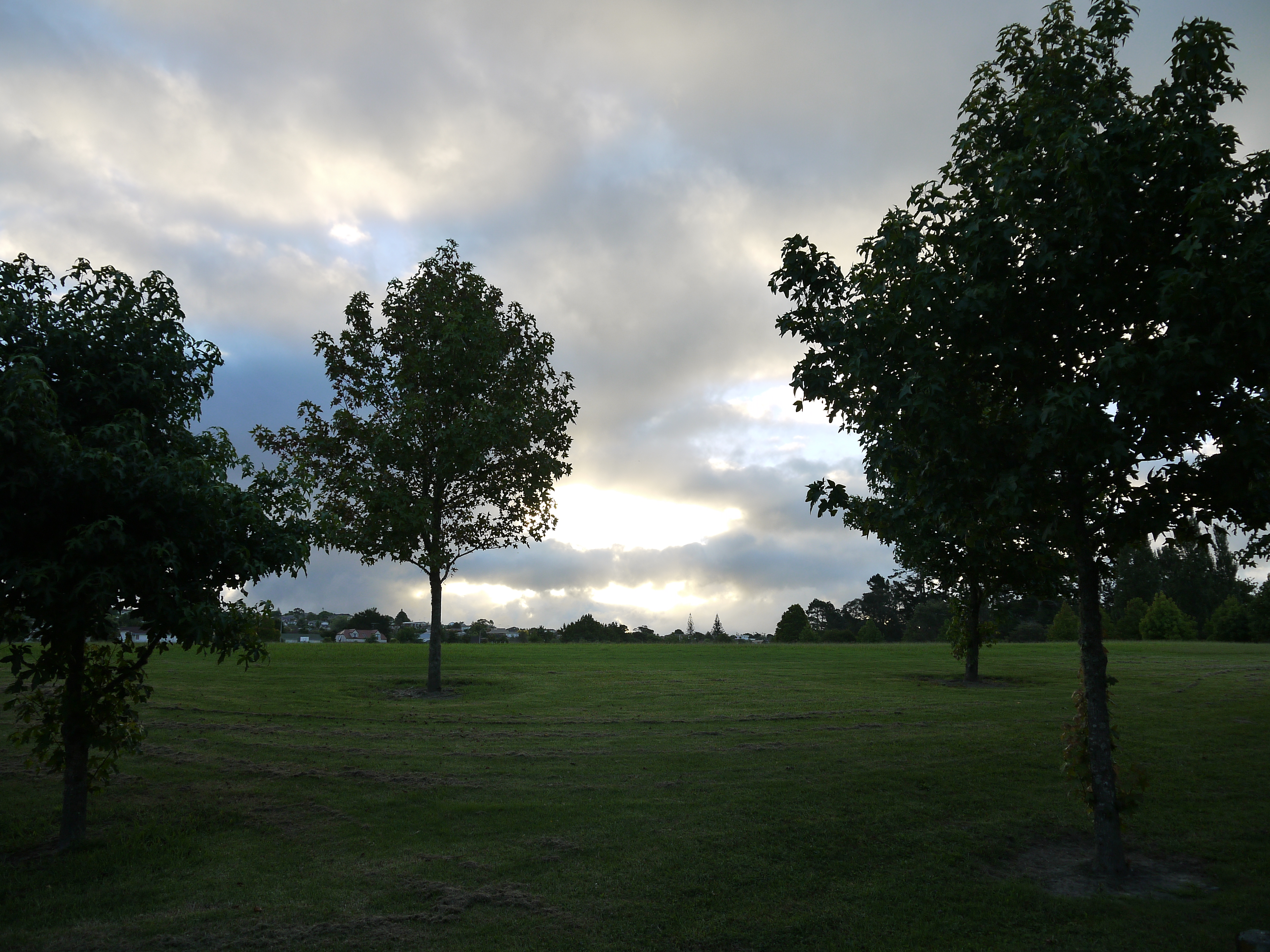 Moire Park Rugby Grounds, Royal Heights, Auckland